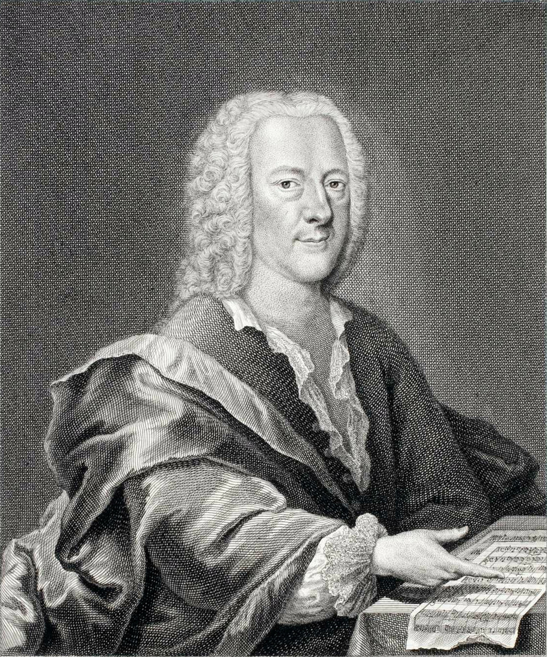 Depicted person: Georg Philipp Telemann